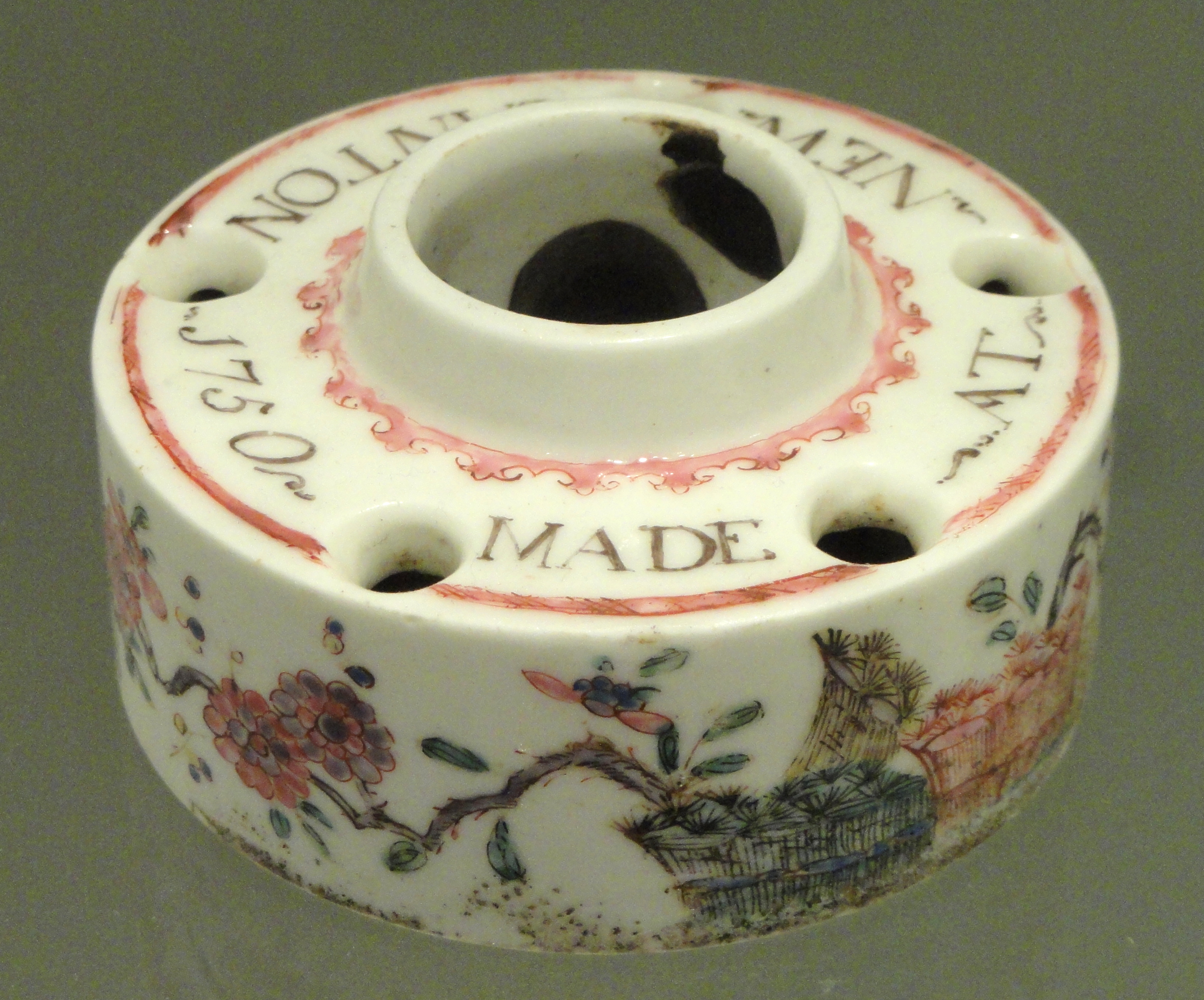 Exhibit in the Gardiner Museum, Toronto, Ontario, Canada. This artwork is in the public domain because the artist died more than 70 years ago.